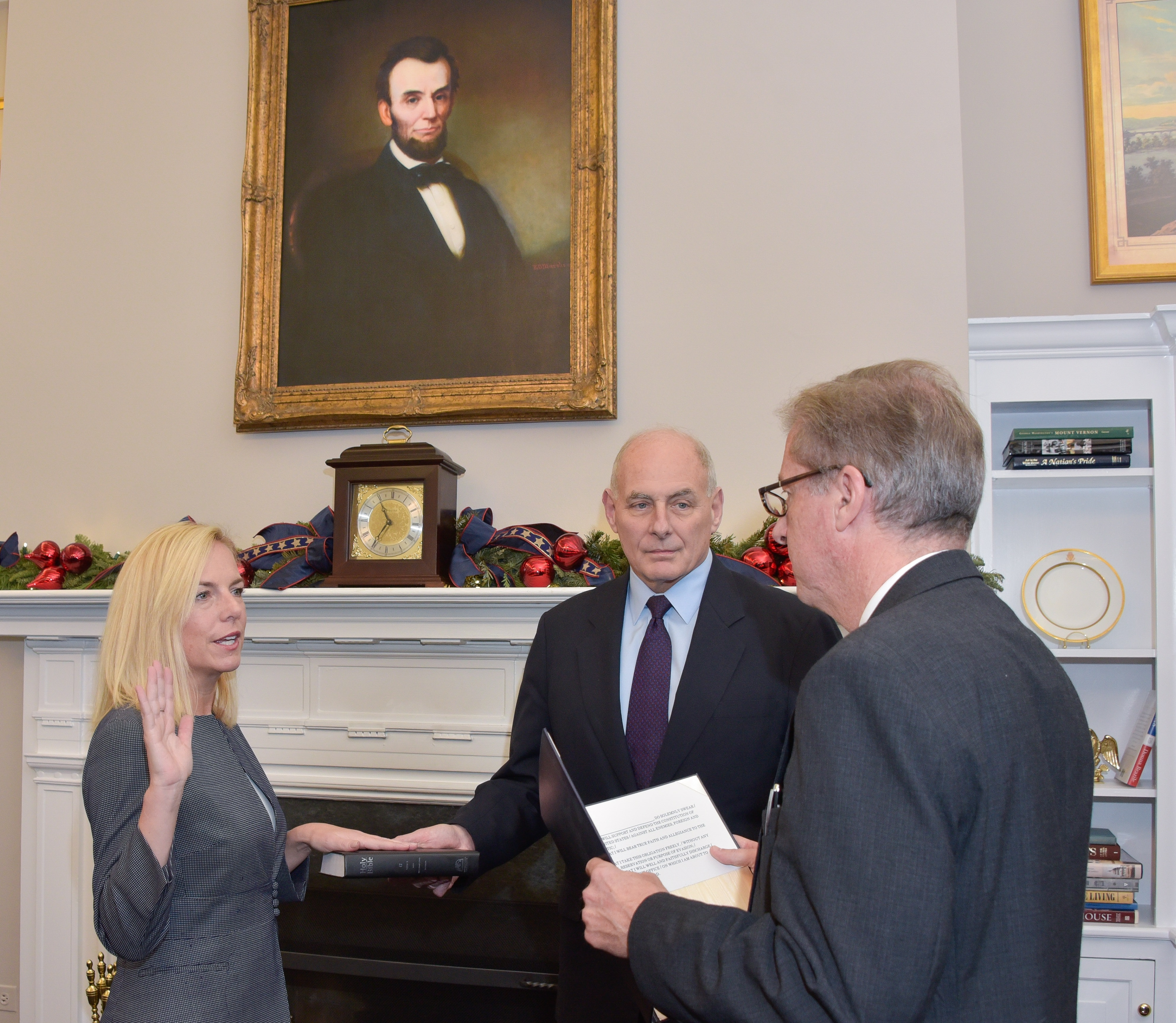 Kirstjen Nielsen takes the Oath of Office as the Sixth Secretary of Homeland Security. Ms. Nielsen is joined by White House Chief of Staff John Kelly and Executive Clerk of the White House David Kalbaugh. Official DHS photo by Jetta Disco.